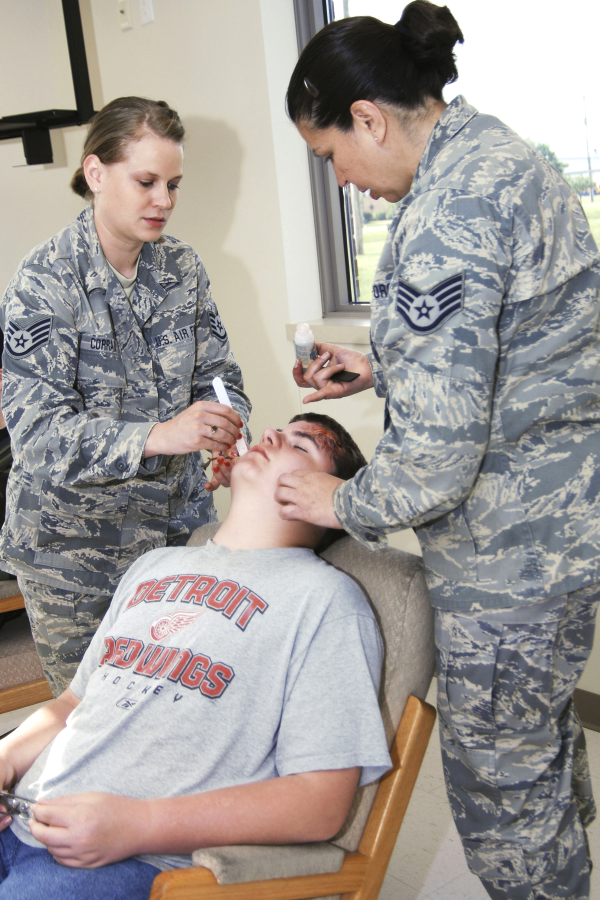 SSgt Chandra Corrado and SSgt Linda Treat apply moulage to Civil Air Patrol member Jake Healy; who portrayed a tornado casualty during a tornado response exercise at Selfridge Air National Guard Base on June 1.